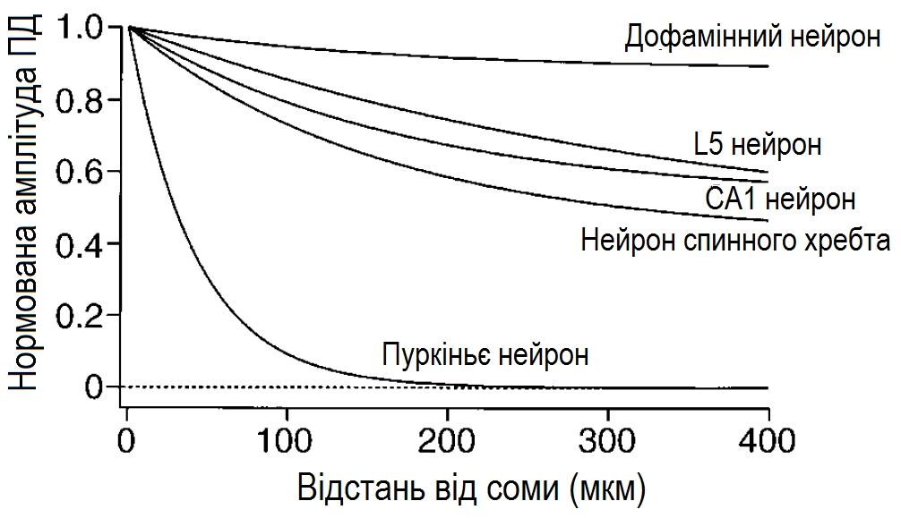 Adapted & modified from the paper "Action potential initiation and backpropagation in neurons of the mammalian CNS" by Stuart G, Spruston N, Sakmann B, Häusser M. (Trends Neurosci., 1997)